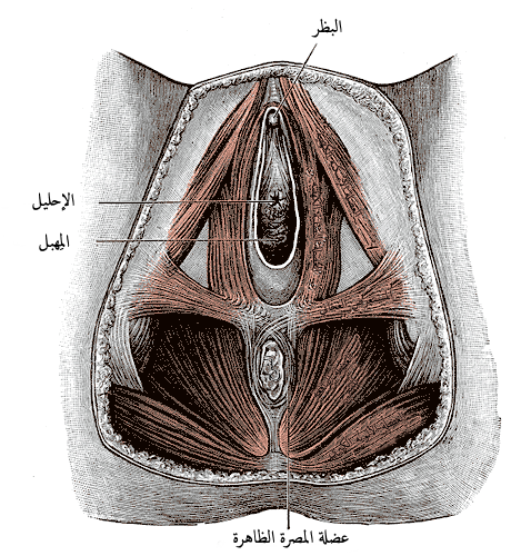 Structure of vagina